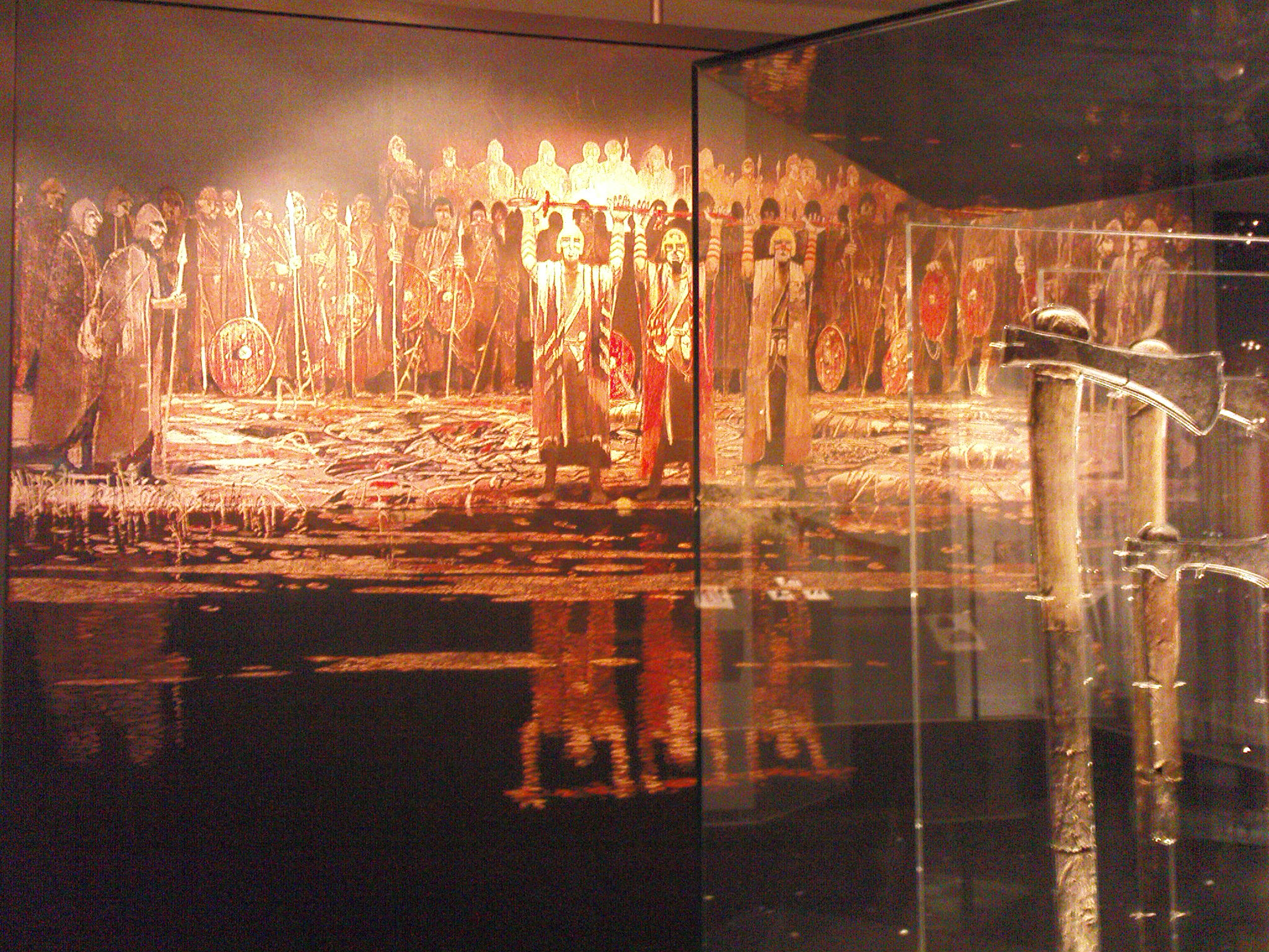 An artists depiction of a votive offering in Illerup Ådal. From an exhibition at Moesgård Museum (Moesgård Manor). Some of the excavated axes can be seen on exhibit at the right.